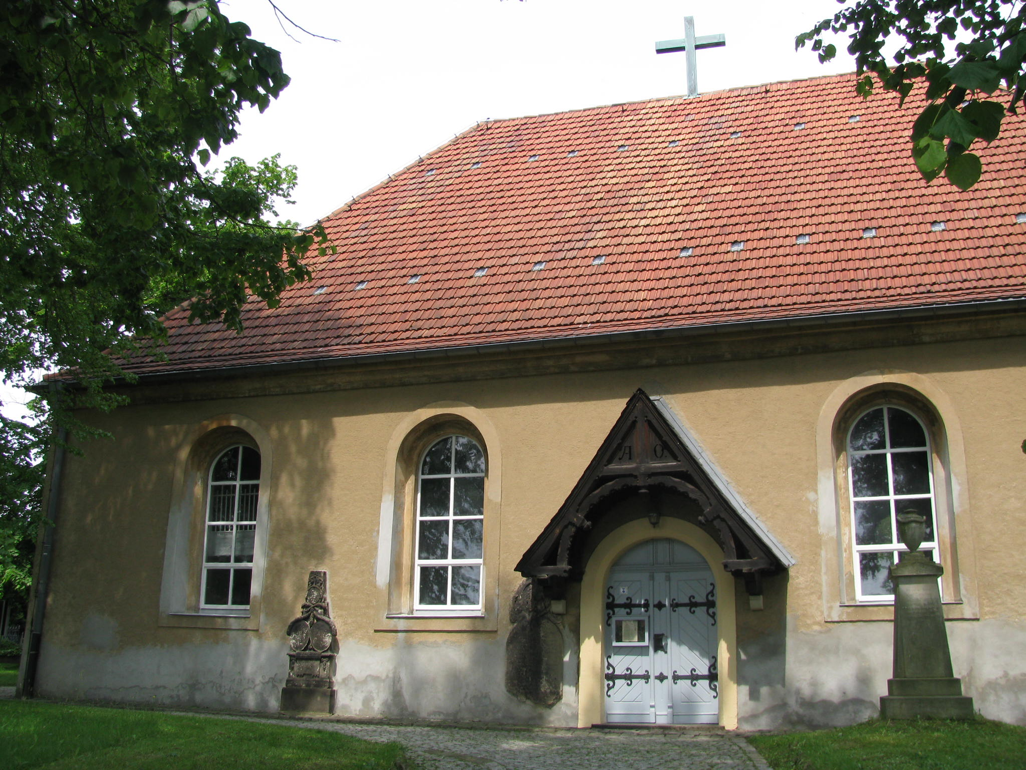 The Kreuzkirche of Bischofswerda is located at the old cemetery, that was founded next to the town gate to Bautzen.